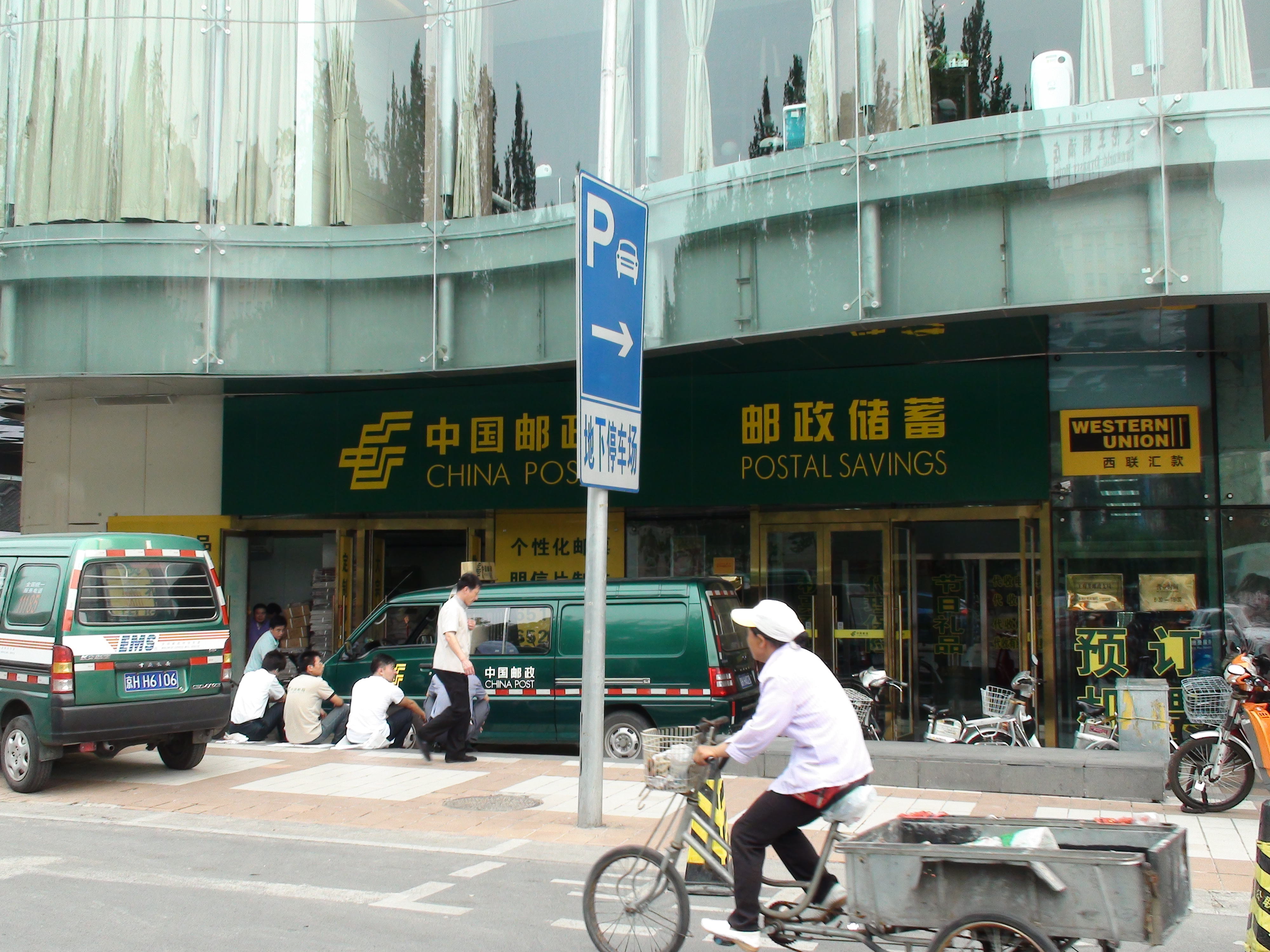 Post Office of Wangfujing,Beijing